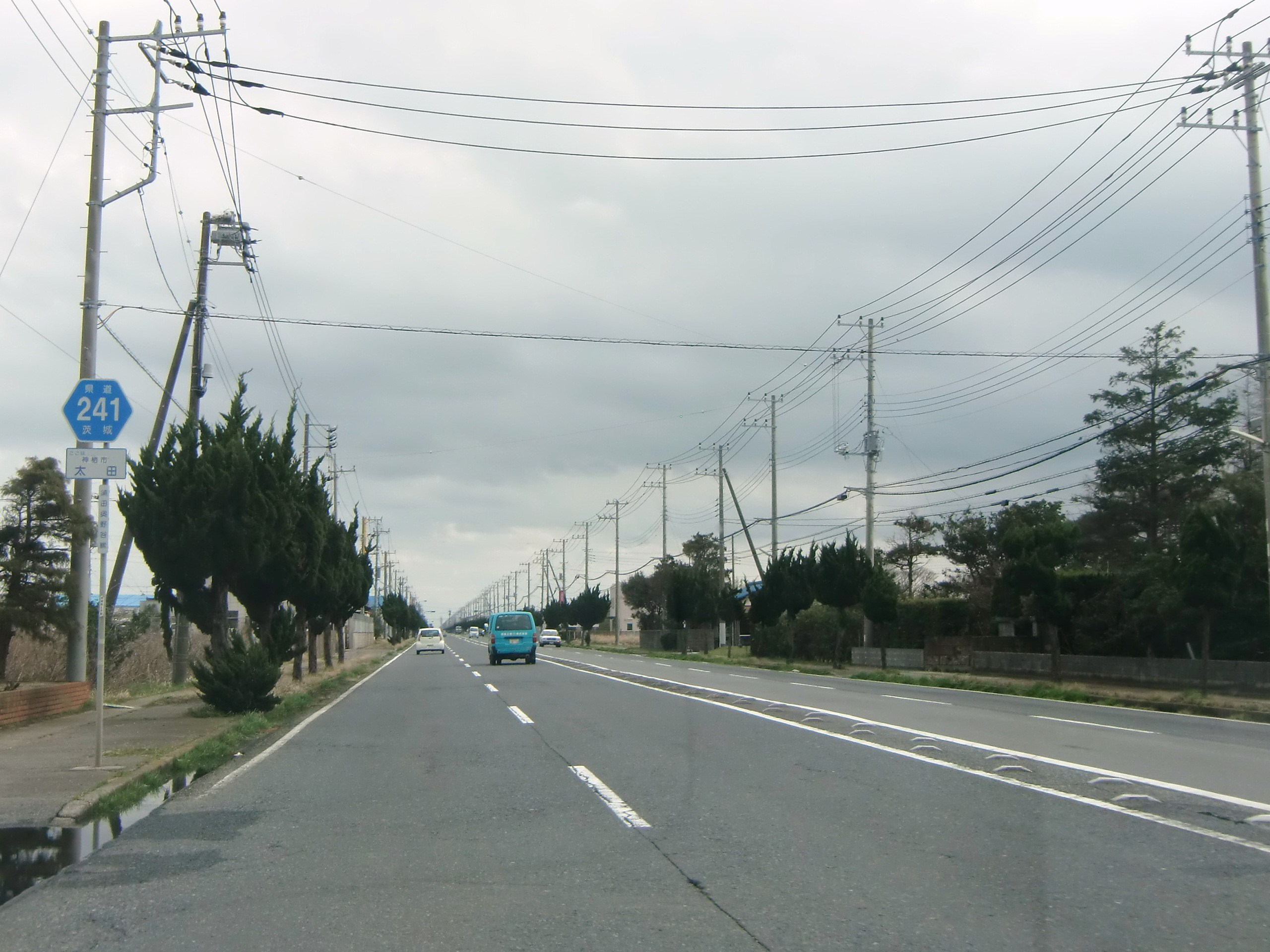 Ibaraki prefectural road 241 (Suda-Okunoya line) in Ōta, Kamisu city, Ibarali prefecture, Japan.